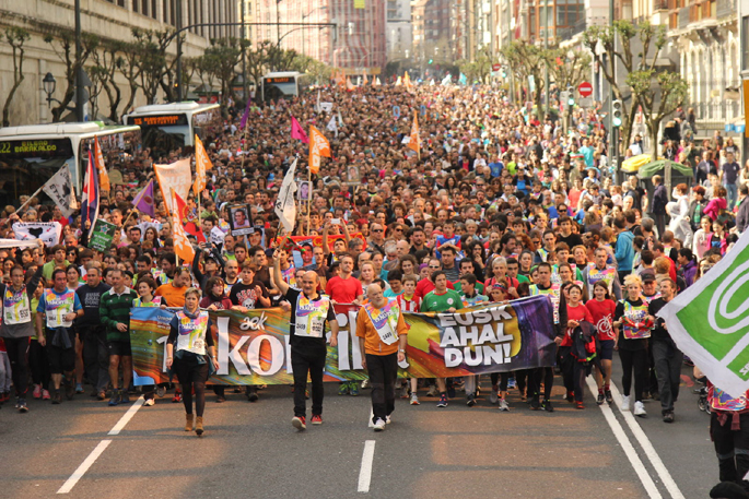 Korrika 2015, Bilbao, Basque Country